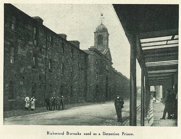 Postcard of Richmond Barracks, Dublin